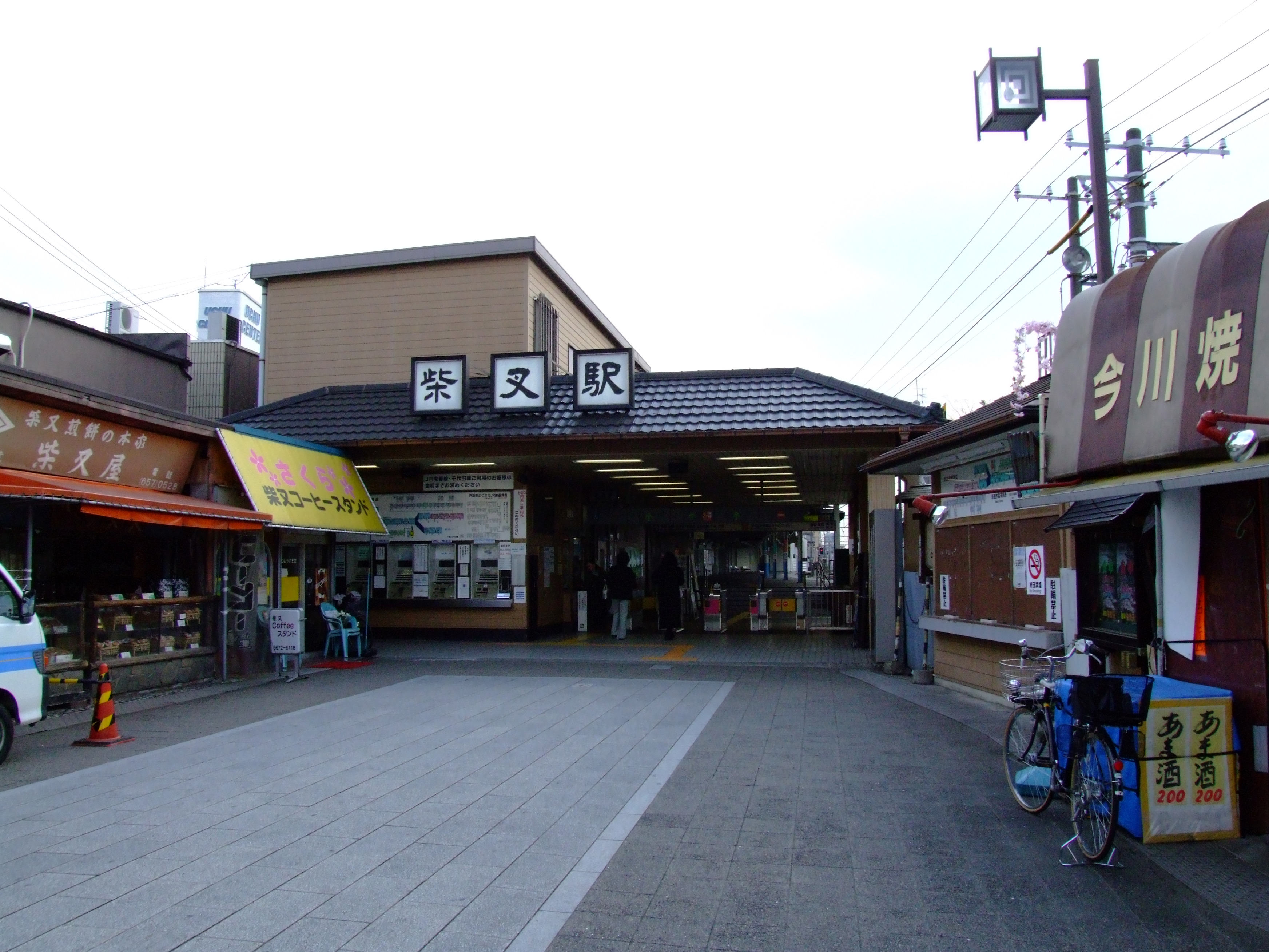 Keisei Kanamachi Line Shibamata Station